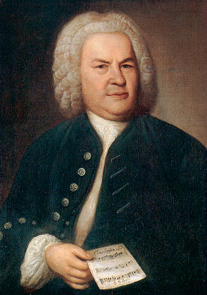 Johann Sebastian Bach in 1746, with riddle canon